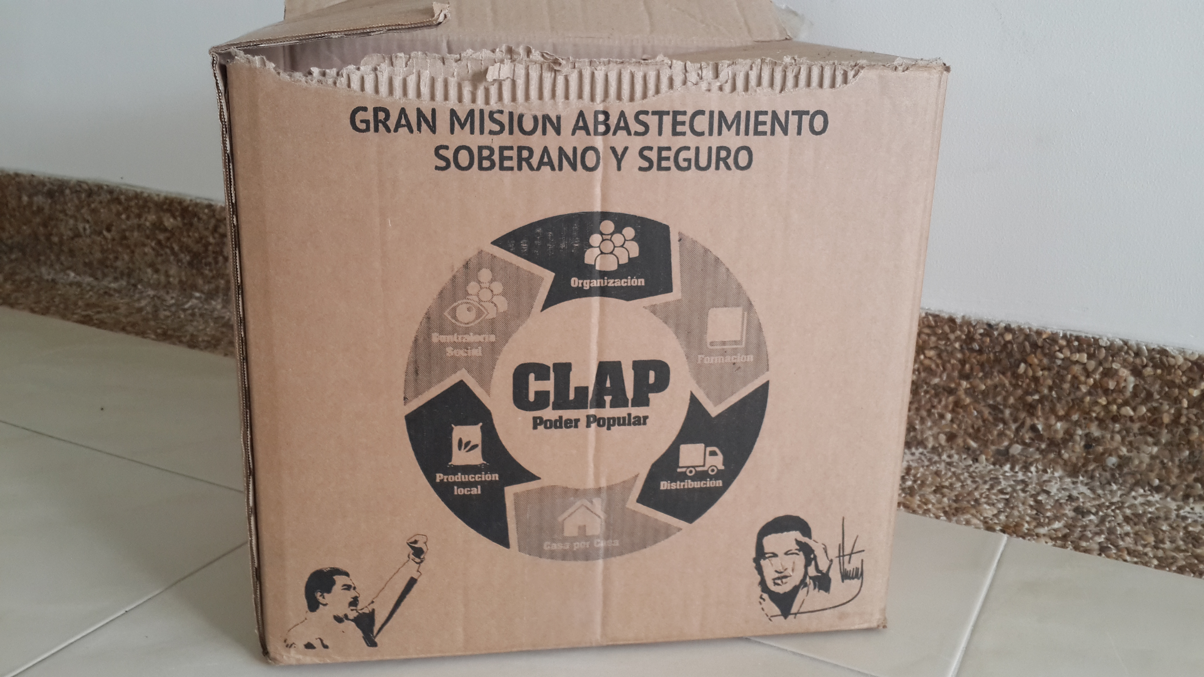 CLAP box